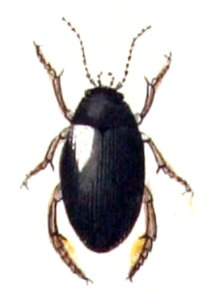 Ilybius ater, from Calwer's Käferbuch, Table 8, Picture 7. Taxonomy was updated to 2008, using mostly the sites Fauna Europaea and BioLib. Please contact Sarefo if the determination is wrong!